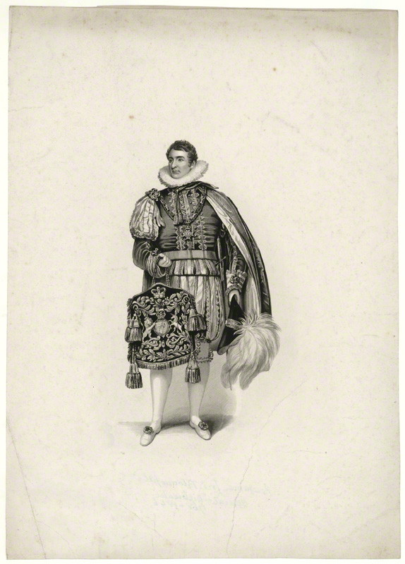 Stipple engraving of Benjamin Bloomfield, 1st Baron Bloomfield by Henry Meyer, after Philip Francis Stephanoff